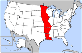 Created picture from blank map of the United States